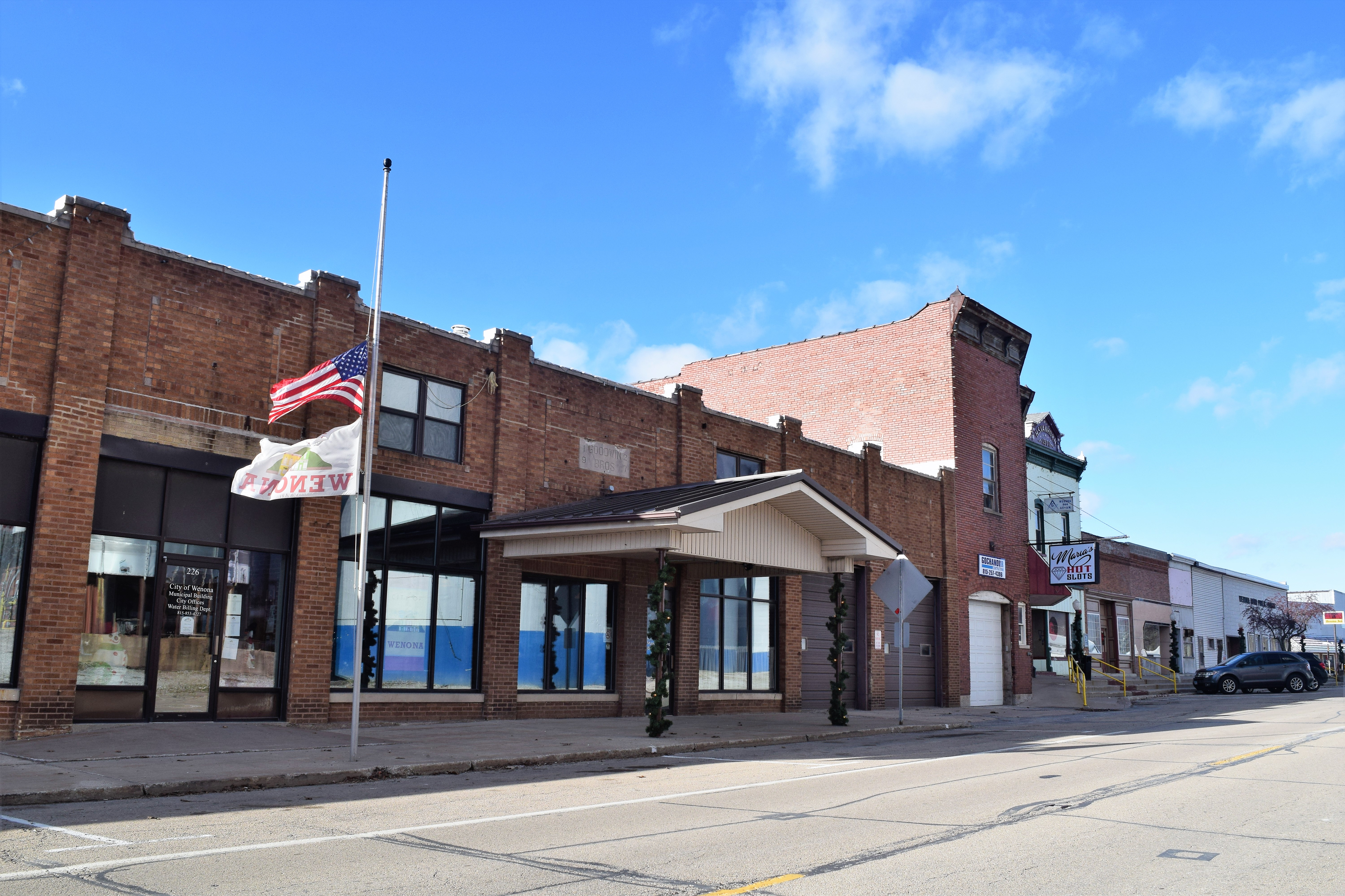 Buildings in downtown Wenona, Illinois, including the municipal building.